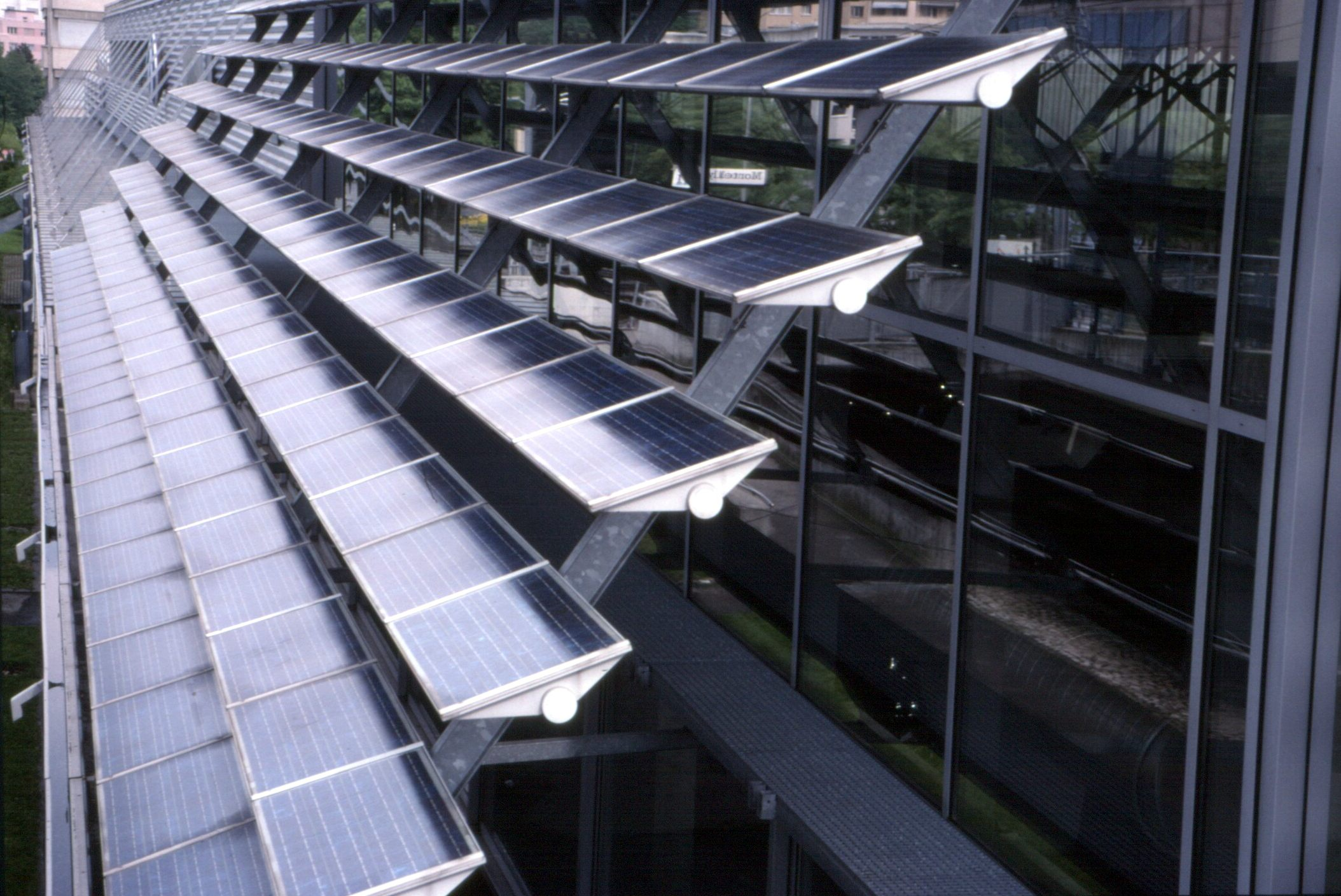 Solar panels on the AMAG building at Avenue de Provence 2, Lausanne, Switzerland